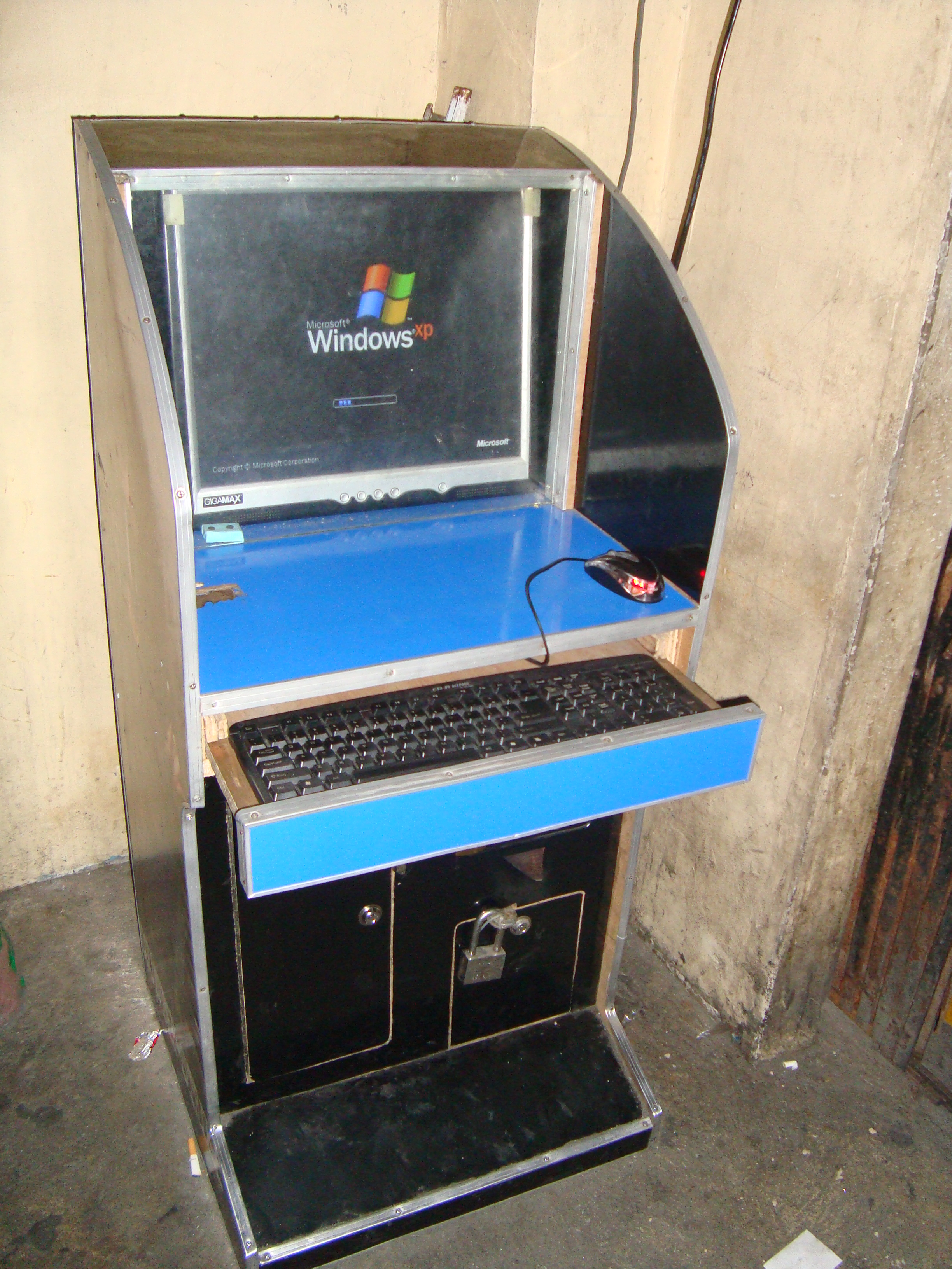 First Peso Net on March 2010 Build by: Junaid Ibrahim